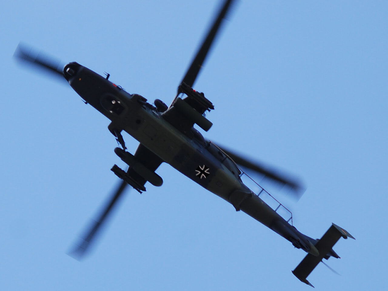 One Tiger of the german army during the défilé du 14 juillet in Paris, France